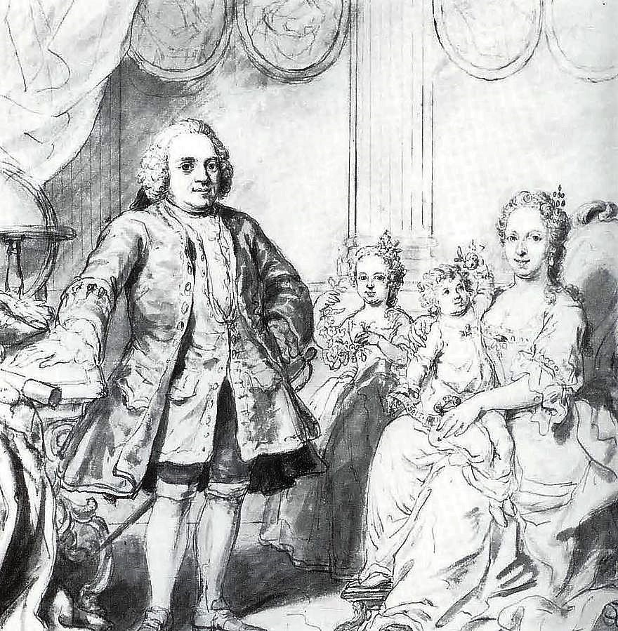 William IV, Prince of Orang and her wife Anne of Hannover and her children Carolina and William V .